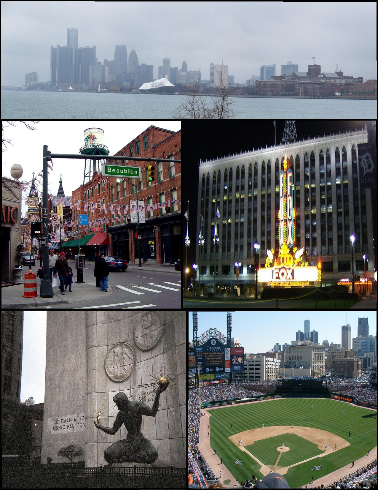 Montage of Detroit images. From top to bottom left to right: Detroit Skyline Greektown Fox Theatre Spirit of Detroit Comerica Park